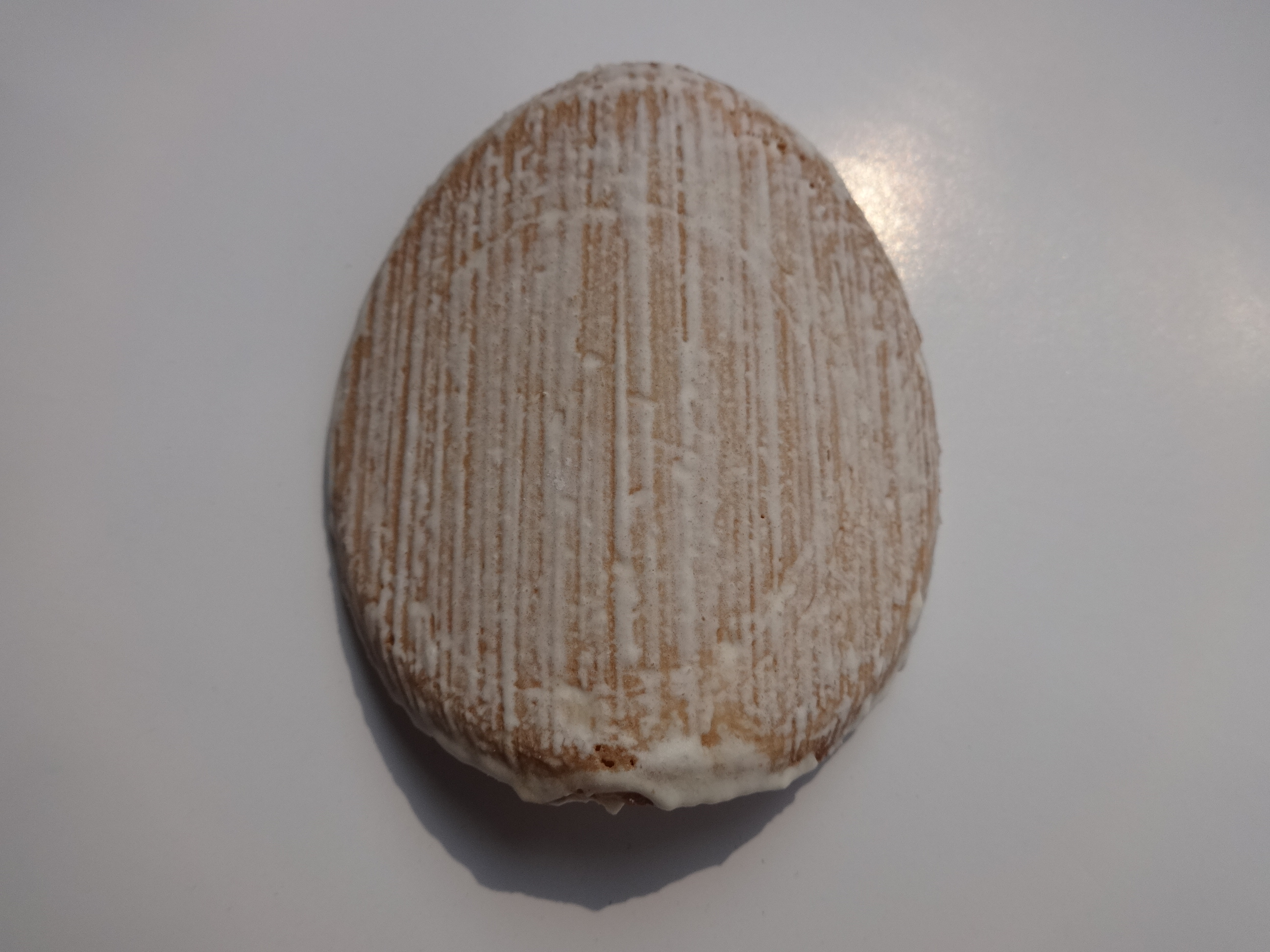 Usuki Senbei ginger biscuit of Goto confectionary in Usuki, Oita, Japan